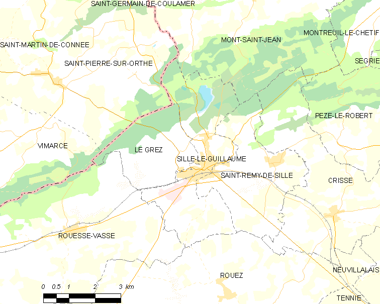 Map of French municipality